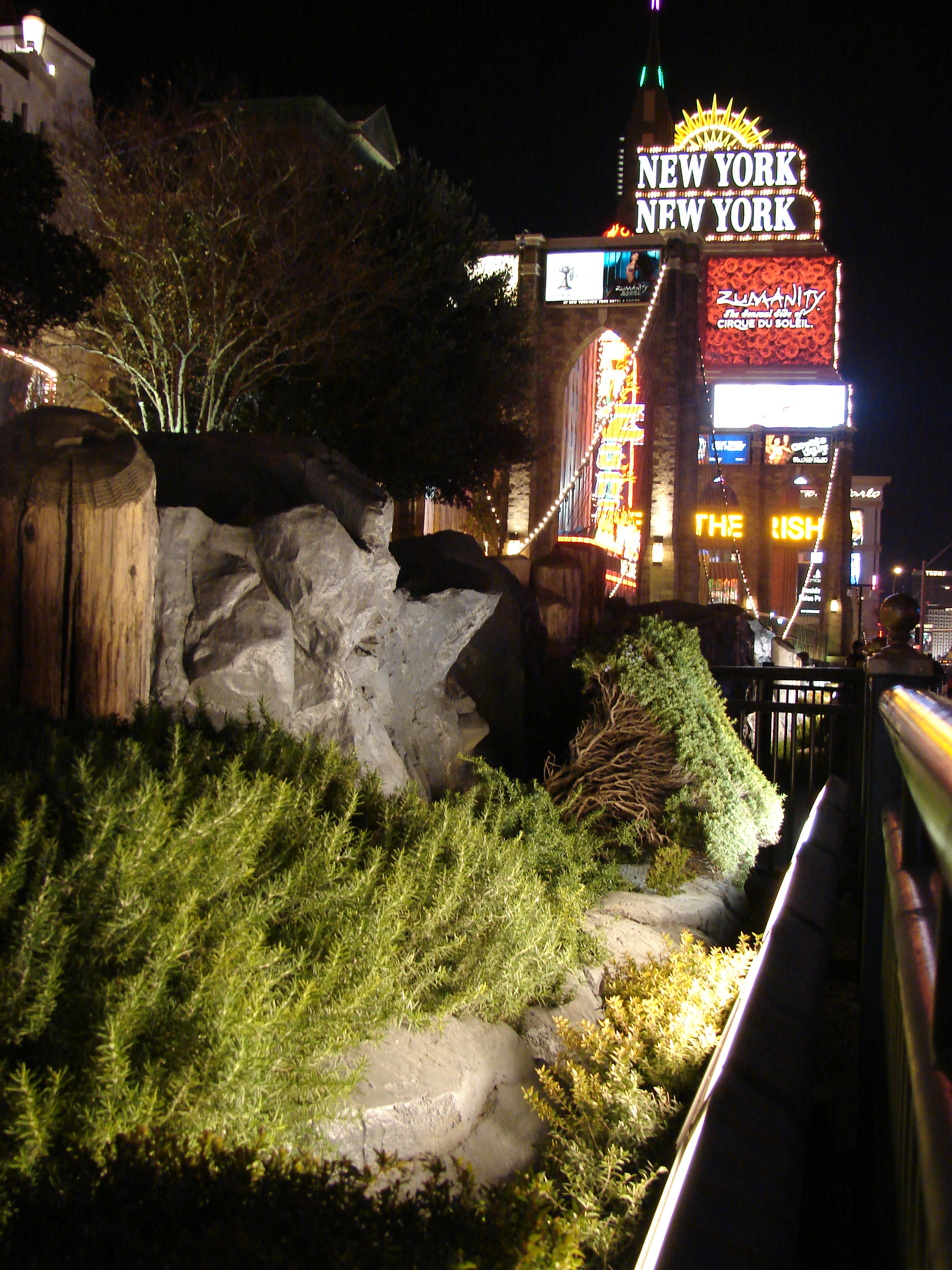 Rosmarinus officinalis (landscaping on Strip). Location: Nevada, Las Vegas